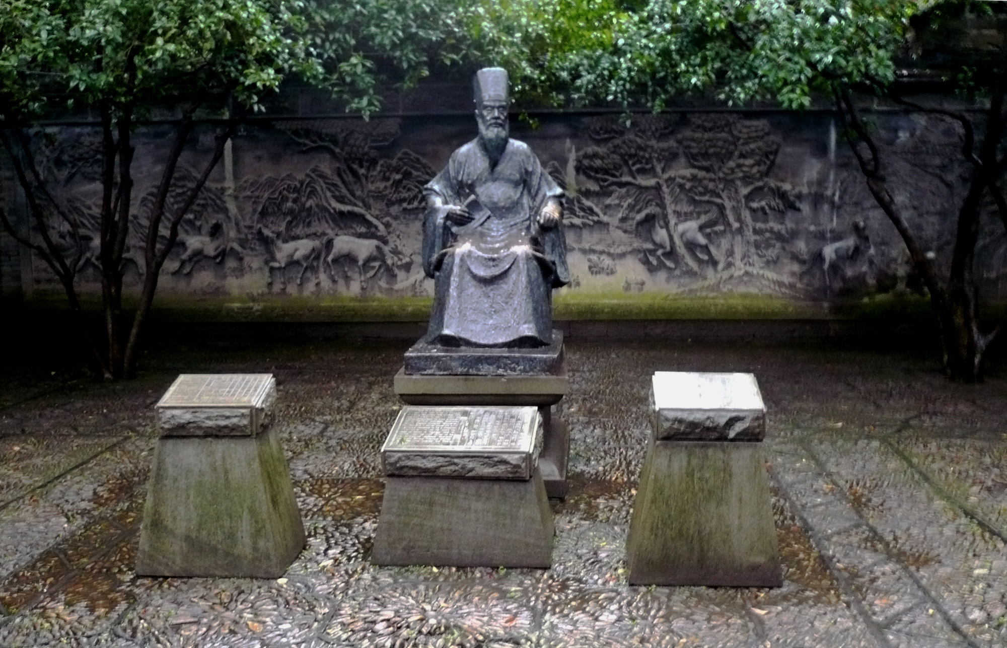 Fan Qin- founder of Ningbo Tian Yi Chamber library 中文（中国大陆）: 宁波天一阁创立人-范钦